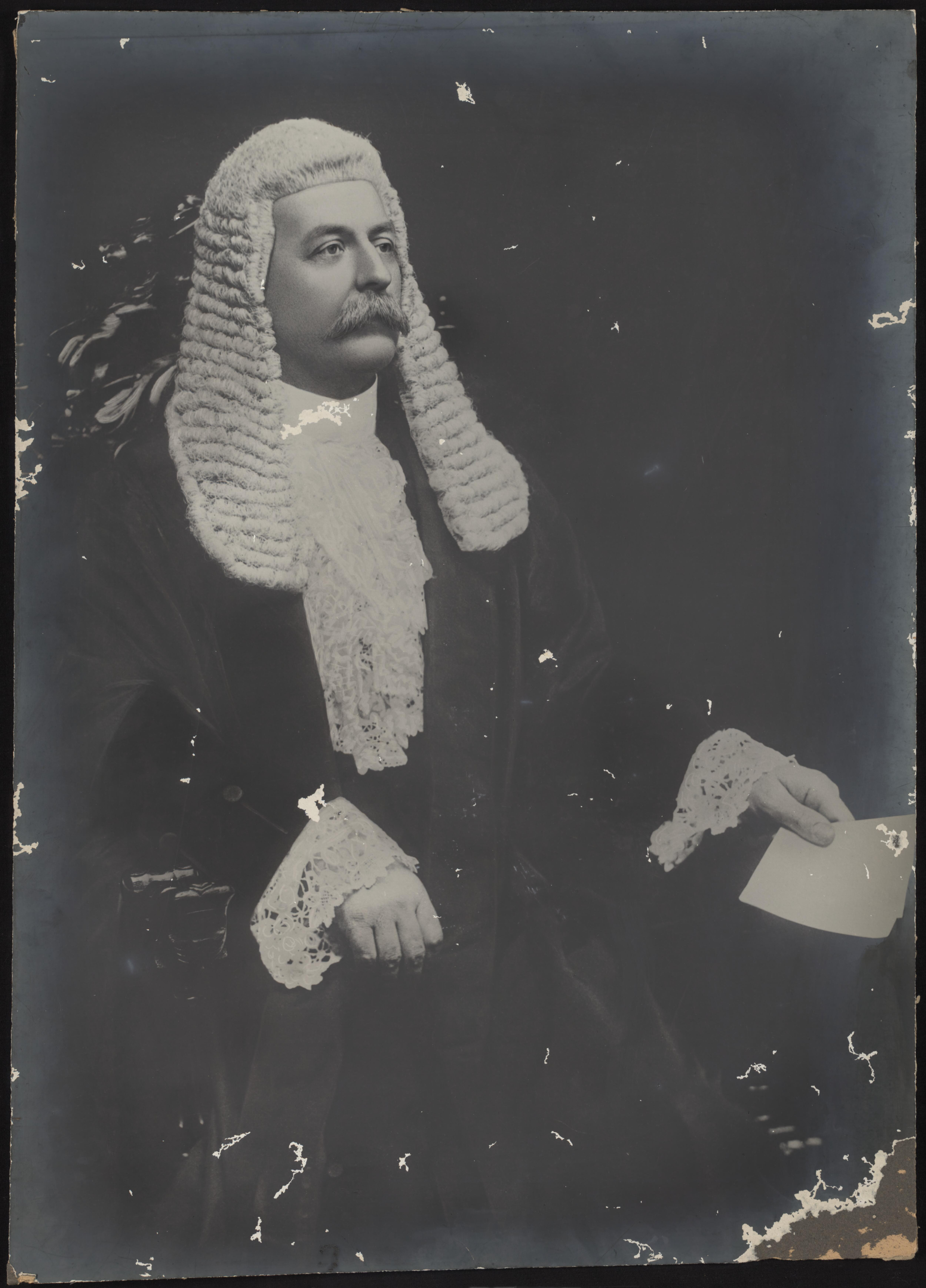 Australian politician Carty Salmon, Speaker of the House of Representatives, in the regalia of the speaker